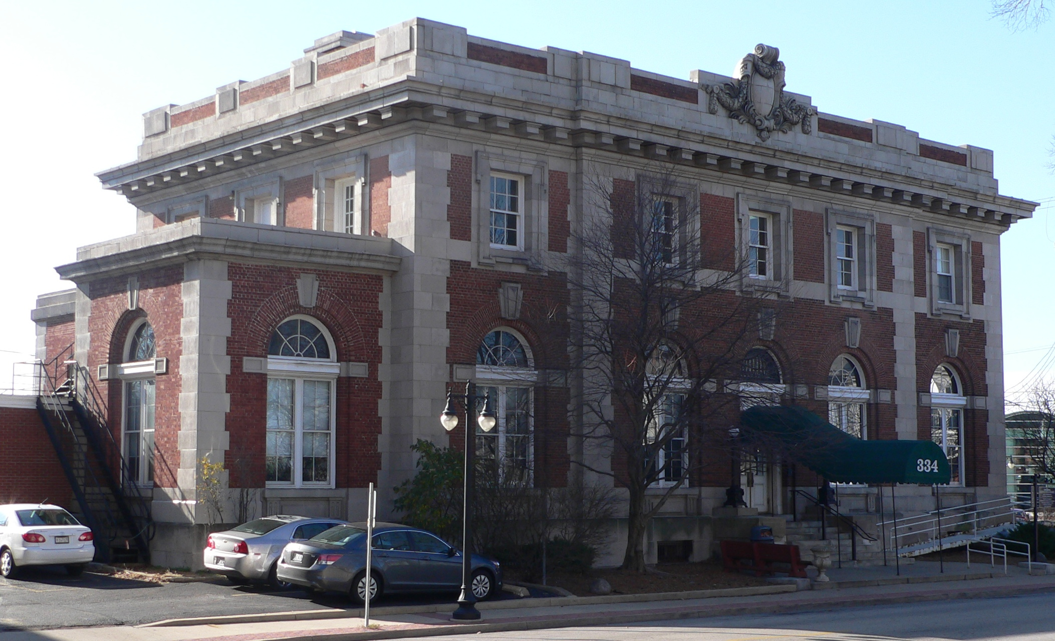 Federal Building, located at 334 Elizabeth Street in Pekin, Illinois. Elizabeth Street runs northwest-southeast; view in the photo is from the east.